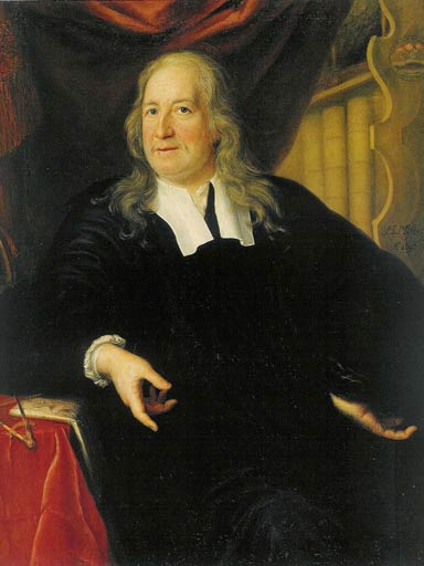 Rudbeck was an anatomist, and one of the discoverers of the lymphic vessels in 1651-52 (discovered independently by the Dane Thomas Bartholin at about the same time), and was long professor of Medicine at Uppsala University. He also founded the earliest botanical garden in Uppsala (later named after Carolus Linnaeus) and initiated a major botanical work with detailed copperplate engravings, some of which were printed but many of which were destroyed in the Uppsala fire in 1702 before publication. He is also known as an engineer and architect, who, among other things, designed the anatomical theatre in the Gustavianum building in Uppsala, and as a speculative historical writer who tried to prove that Sweden was in fact the lost Atlantis.